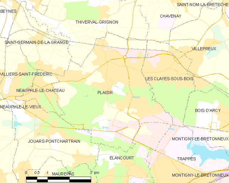 Map of French municipality Plaisir